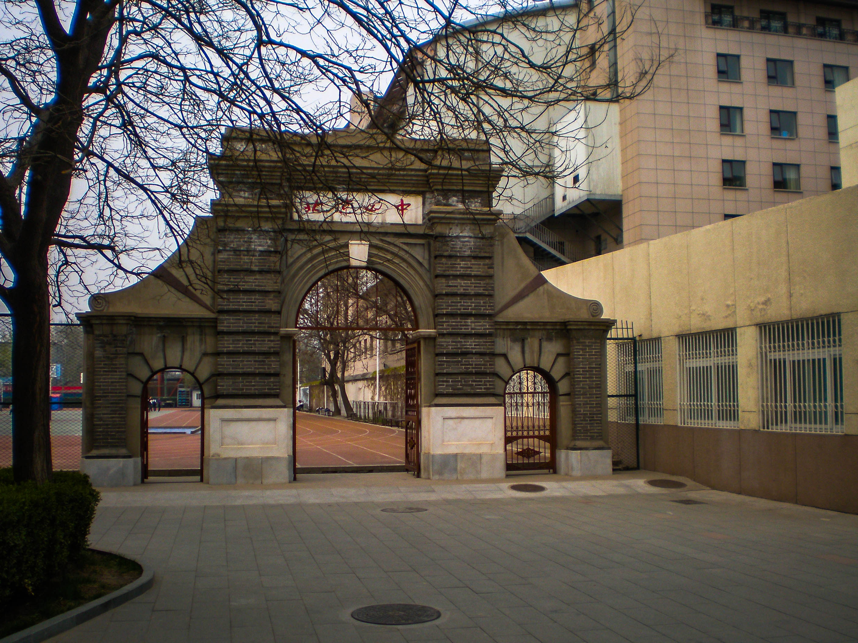 Old Gate of Beijing No.4 High School